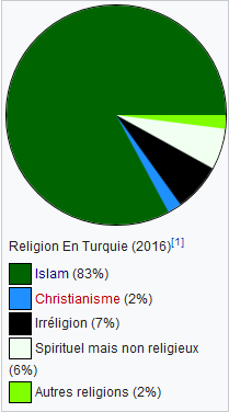 Turkey Religion